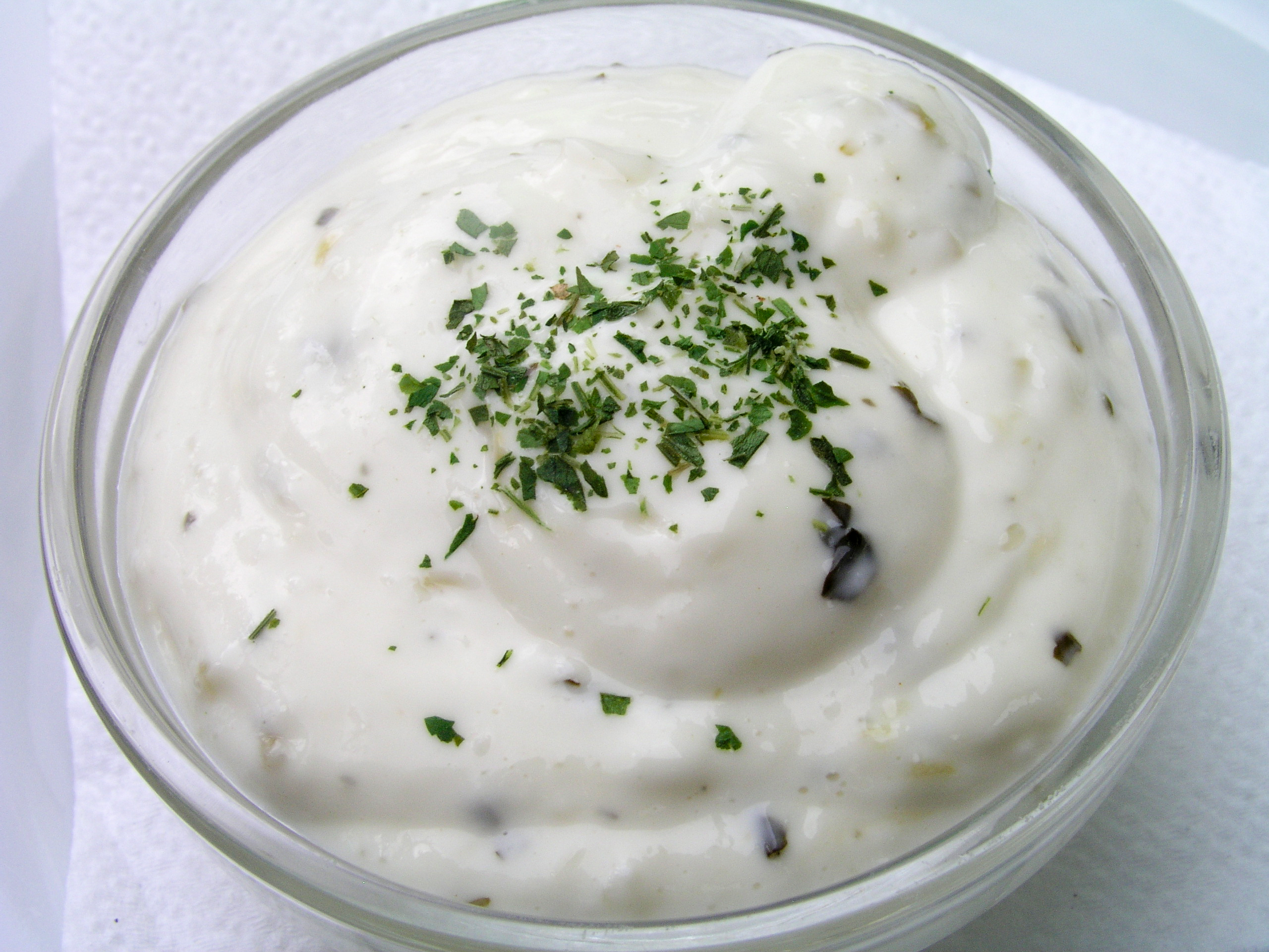 Tartar sauce